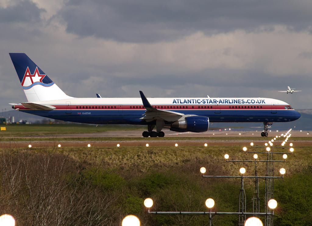 mock-up of winglet-equipped Boeing 757-200 in Atlantic Star Airlines livery